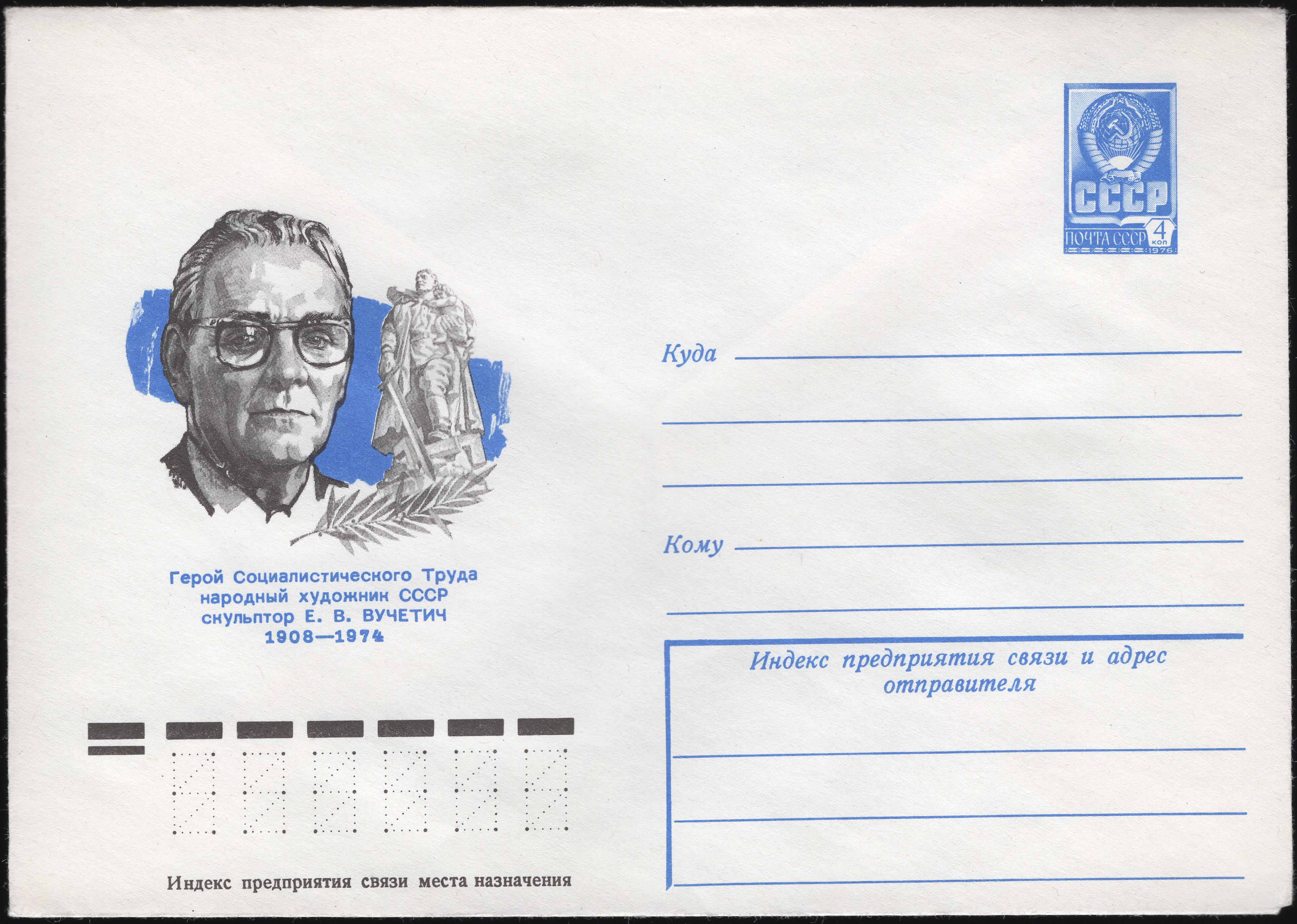 Hero of Socialist Labour People's Artist of the USSR sculptor Yevgeny Vuchetich. 1908-1974. Series: Heroes of Socialist Labour.